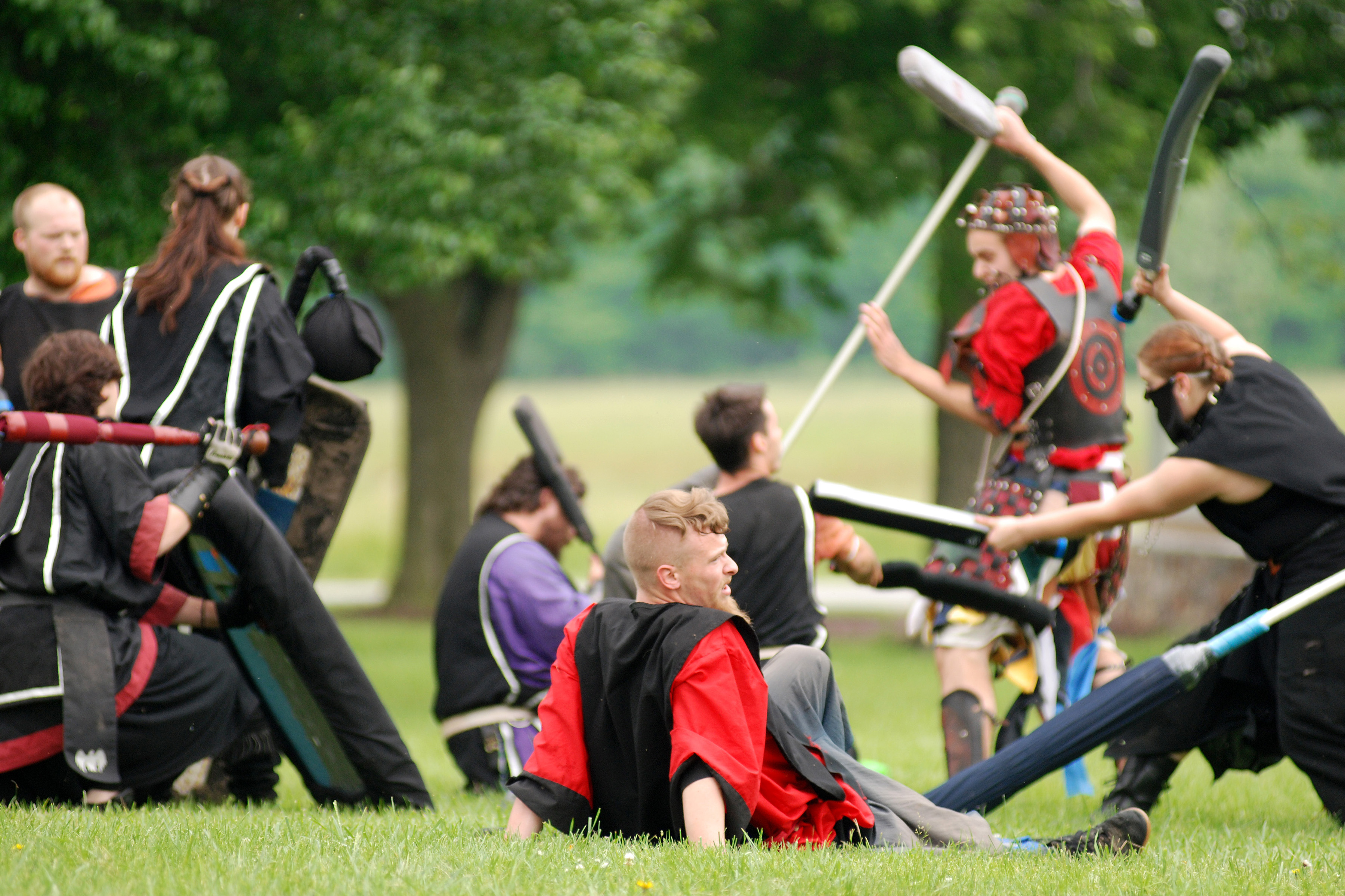 Pictures from a Dagorhir event taking place in Missouri.